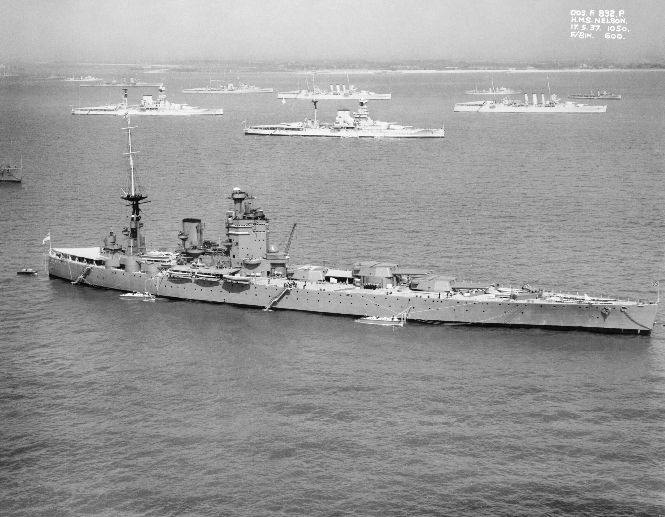 IWM caption : The British battleship HMS NELSON off Spithead for the 1937 Fleet Review. Anchored in the background are two Queen Elizabeth Class battleships and two cruisers of the London Class.